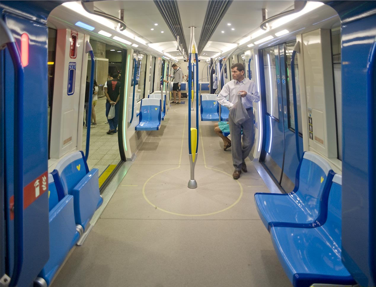 Interior view of MPM-10 Montréal subway car full-size presentation mockup